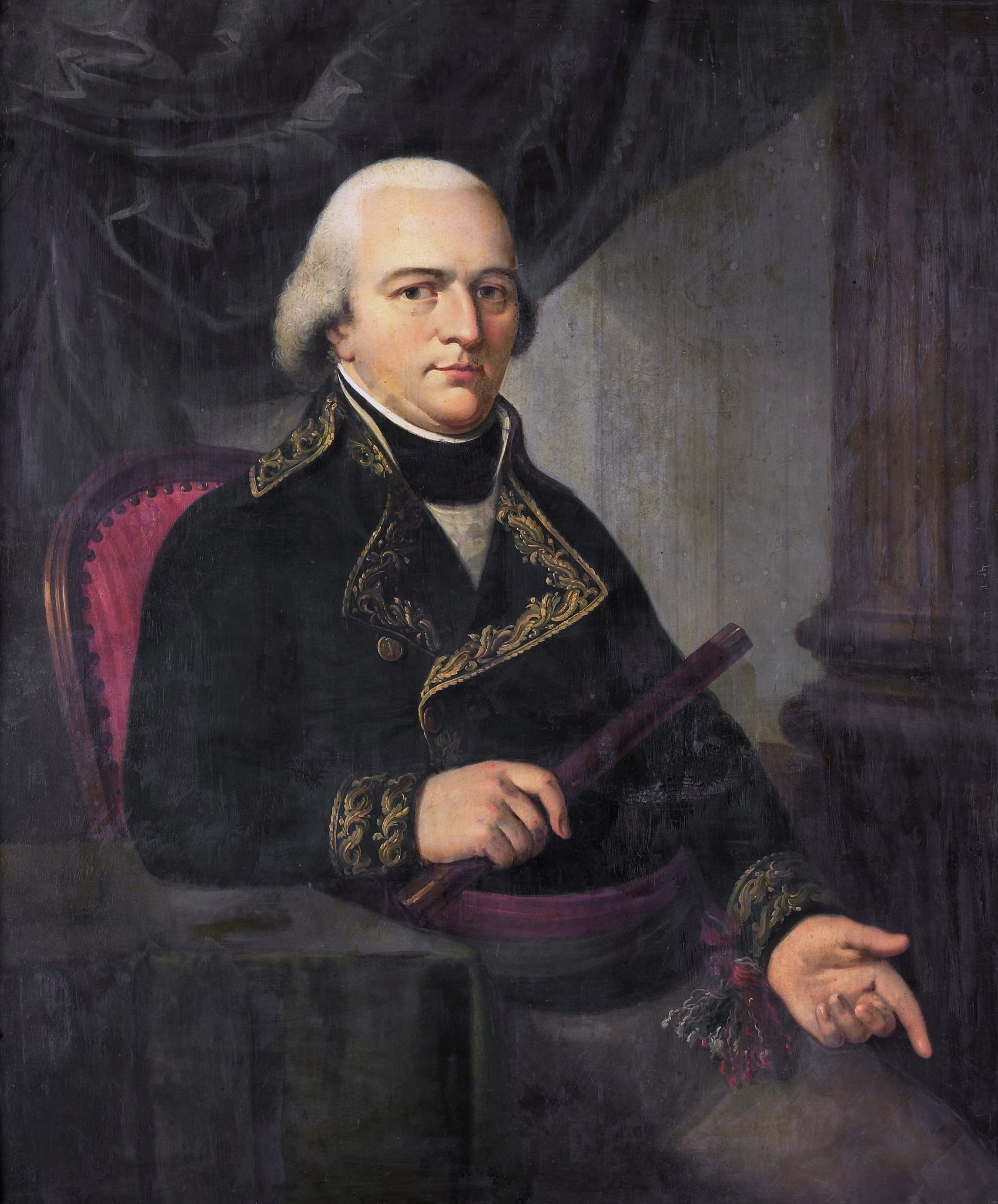 Portrait of Pieter Gerardus van Overstraten, Governor-General of the Dutch East Indies from 1797 to 1801. Part of the Governors-general series.